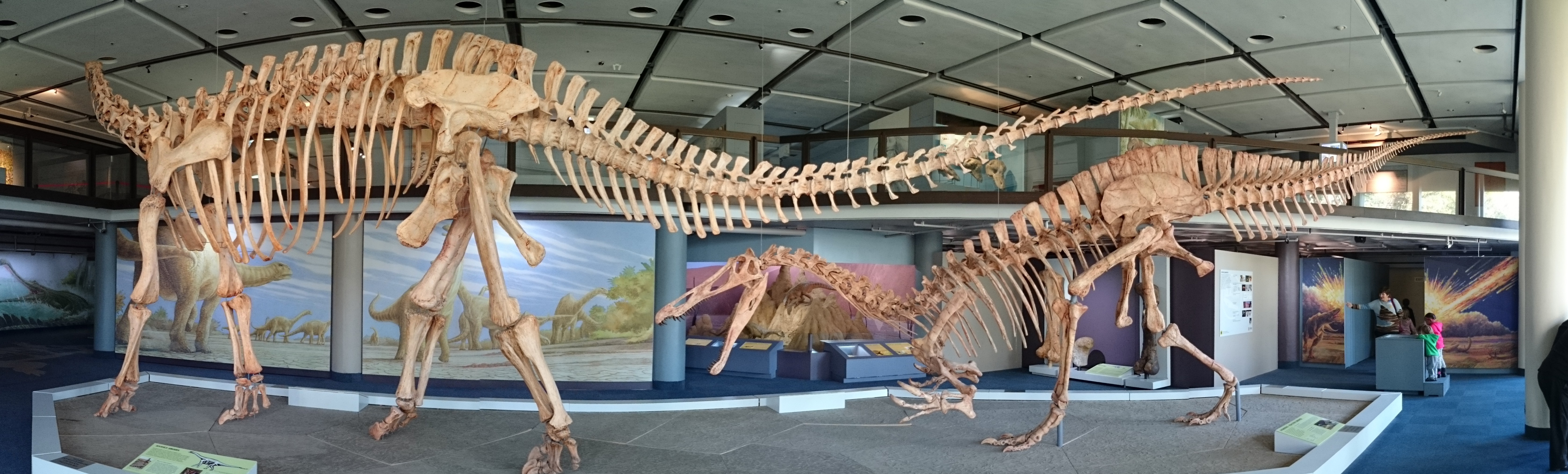 Mounted replica of the fossilized skeleton of a juvenile Jobaria, a long-necked sauropod dinosaur that lived in Africa during the Early Cretaceous Period about 135 million years ago. As a juvenile, this individual was only 12.5.m long and stood just 5.5m at the hip whereas the adult jobaria was enormous, nearly 21.5 meters long, 14.5 meters high and estimated to have weighed over 18 metric tons (18,000 kg)!